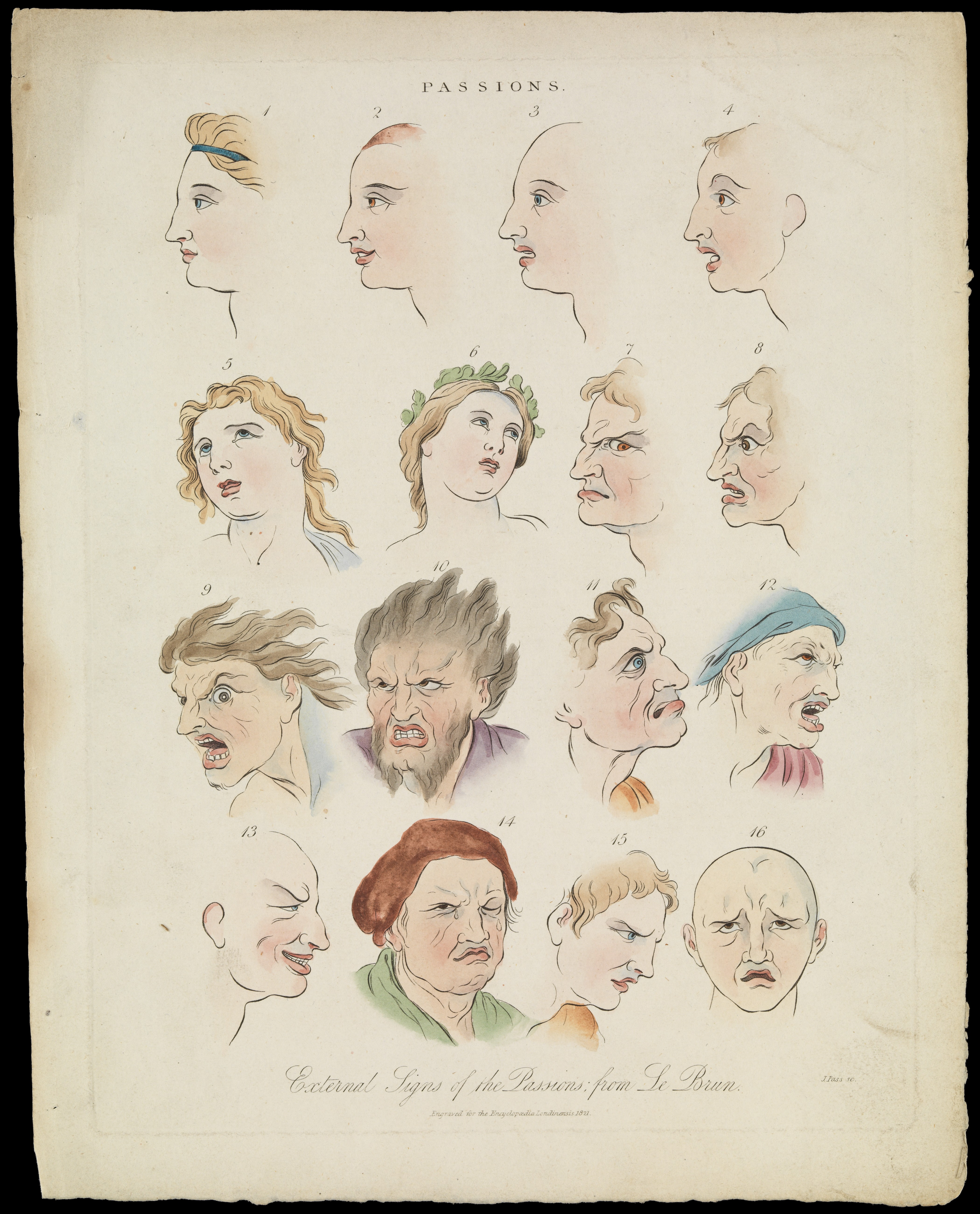 Sixteen faces expressing the human passions. Coloured engraving by J. Pass, 1821, after C. Le Brun. Wellcome Images Keywords: Charles Le Brun; J. Pass